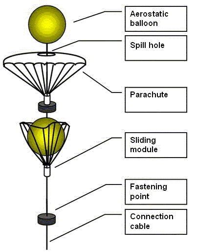 From web site